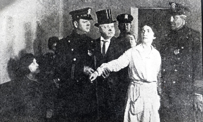 Margaret Sanger’s arrest at Brownsville Clinic.